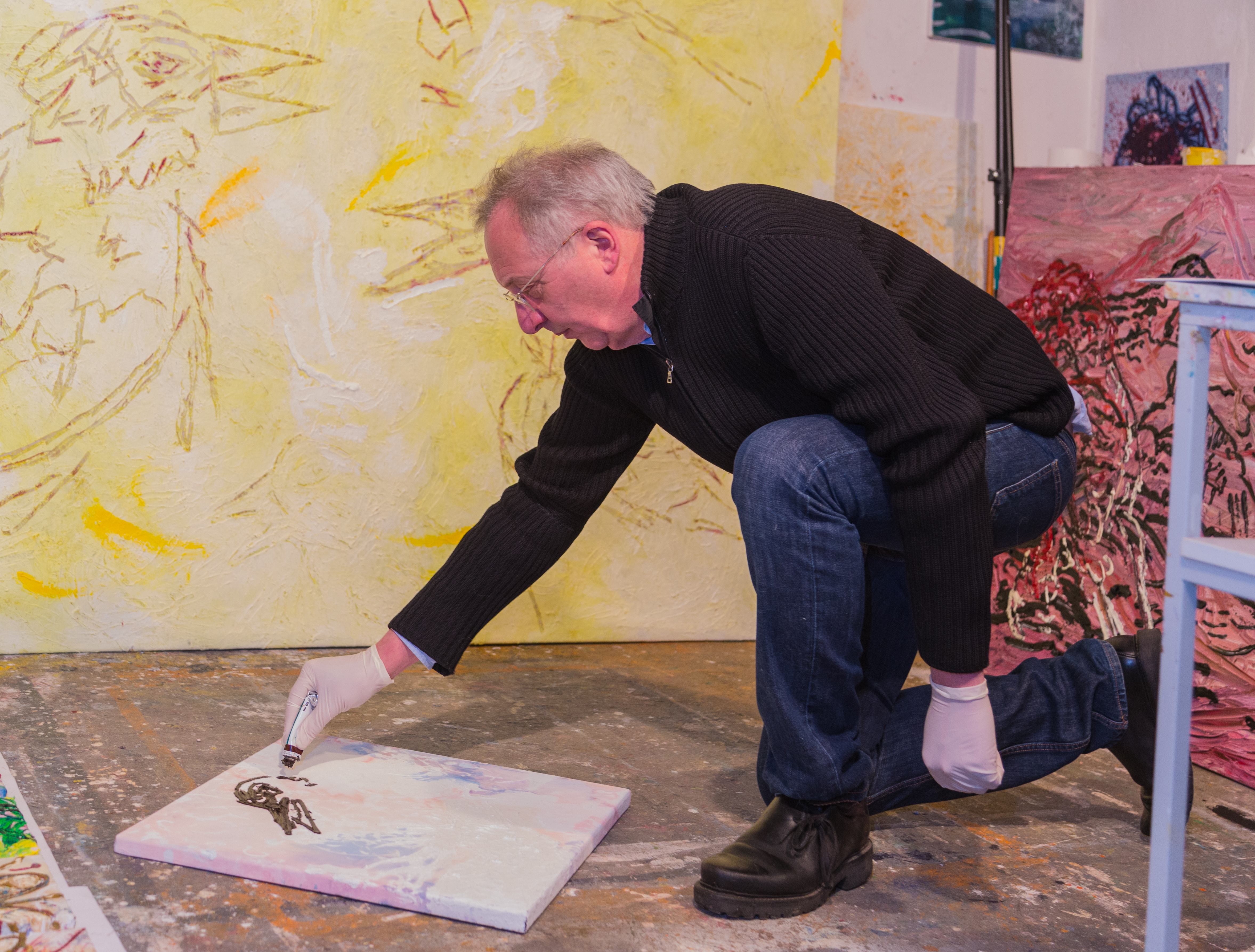 German painter Bernhard Sprute at his atelier in Bad Oeynhausen, Kreis Minden-Lübbecke, North Rhine-Westphalia, Germany. Here Sprute works on his newest painting, Vogelporträt mit Hirsch (2018, 50x50 cm).